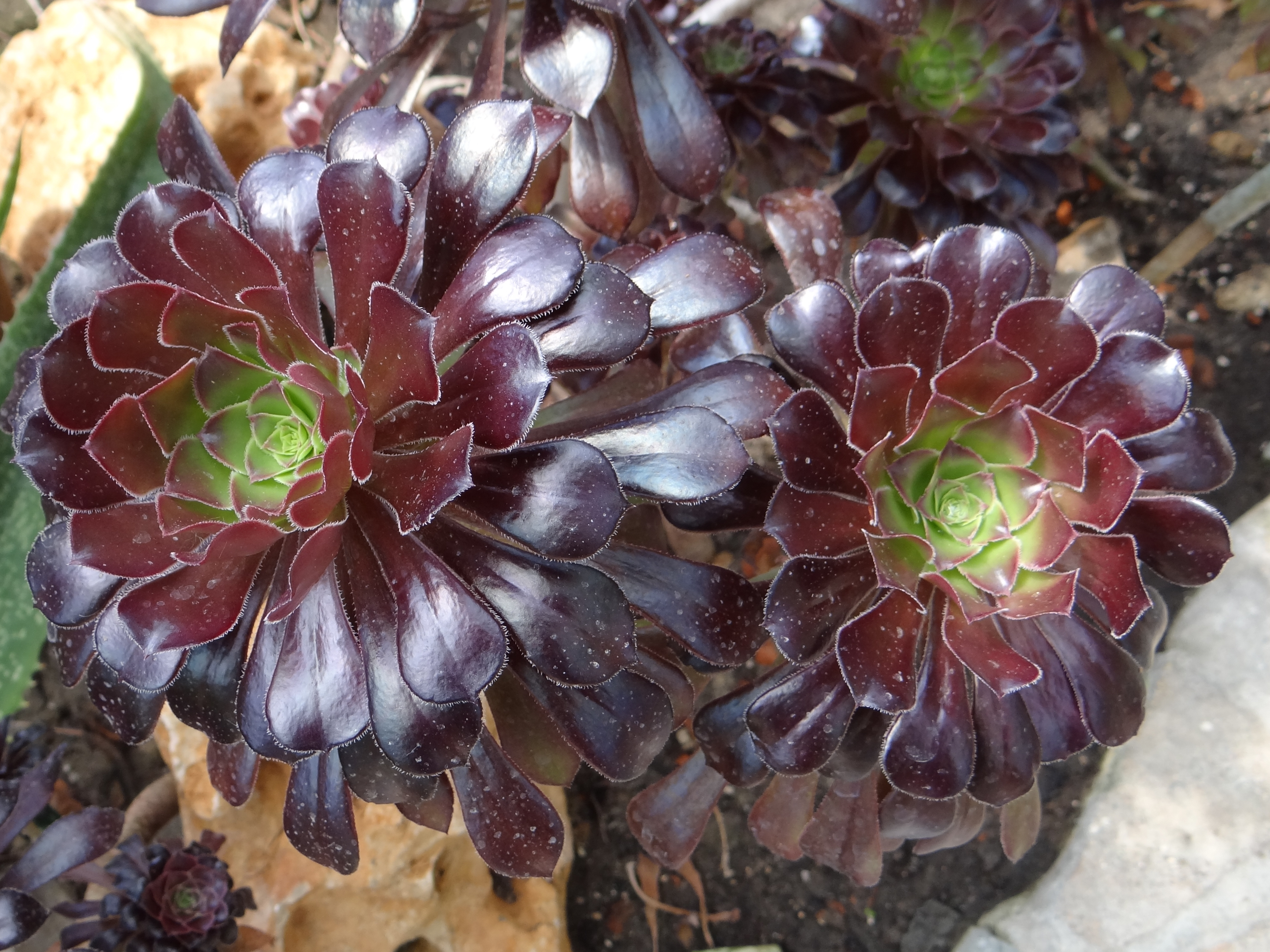 Aeonium arboreum (location:Botanical Garden in Cracow)